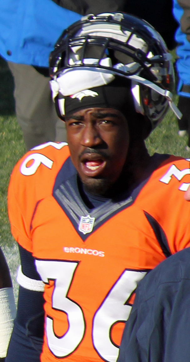 Kayvon Webster, a player on the National Football League.